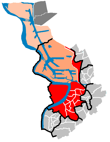 neigborhoods of Antwerp (City)